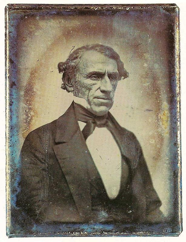 Dalmacio Vélez Sársfield, Argentine lawyer and politician, c.1850